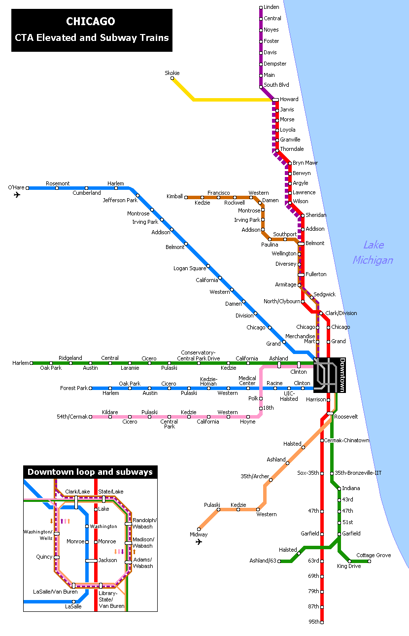 Map of the Chicago Transit Authority's 'L' service.